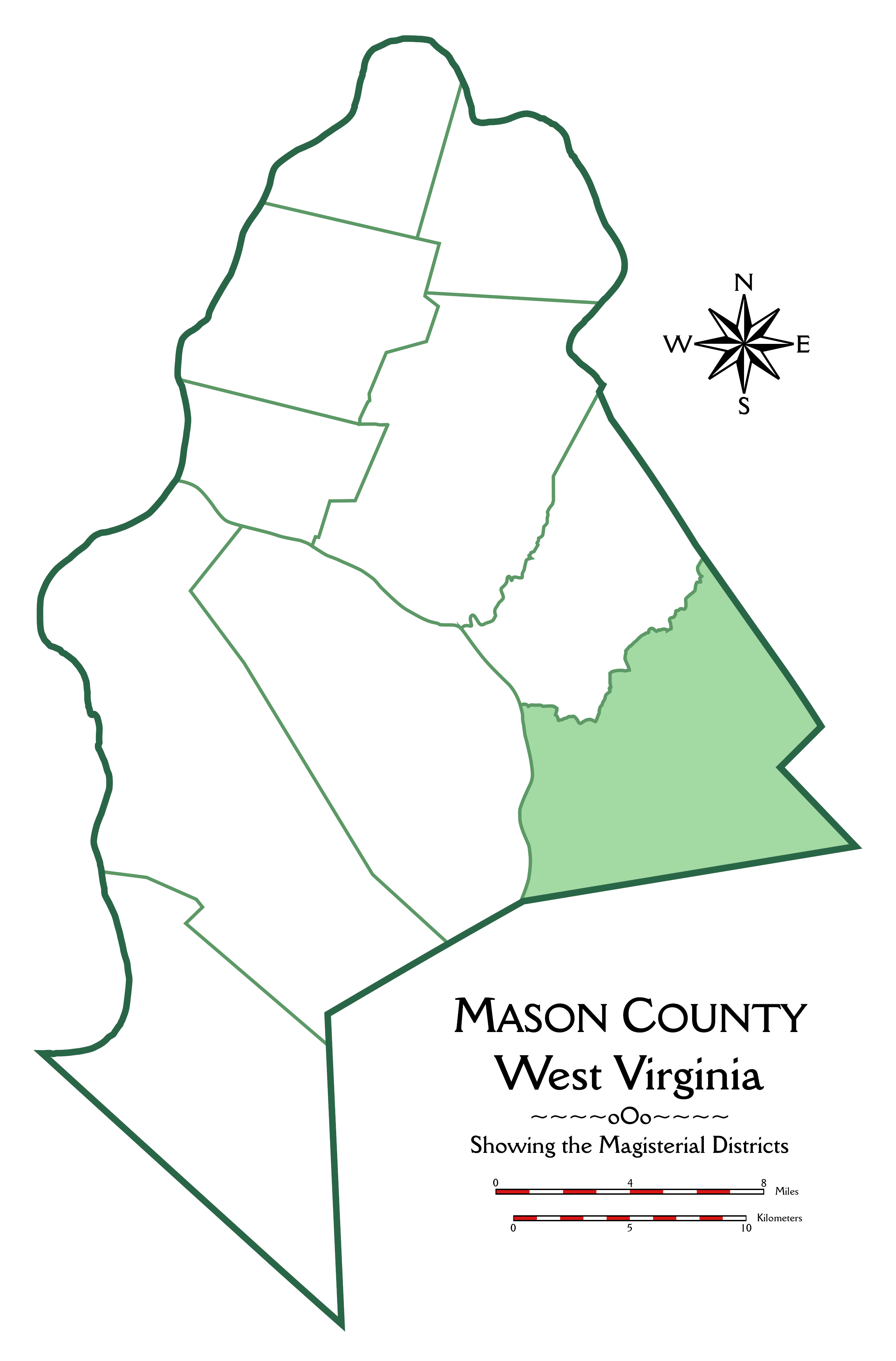 This is an outline map of Mason County, West Virginia, showing the boundaries of the magisterial districts. Union District is highlighted.